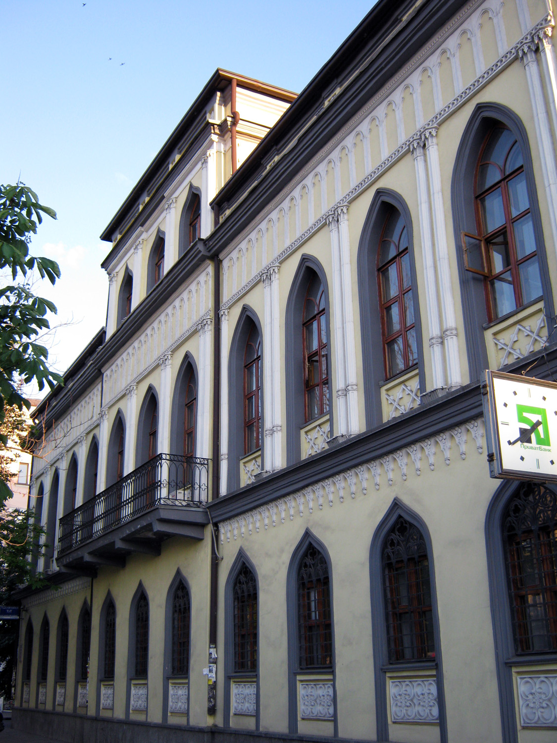 House of Governor in Dnipropetrovsk — National historic landmark of Ukraine.